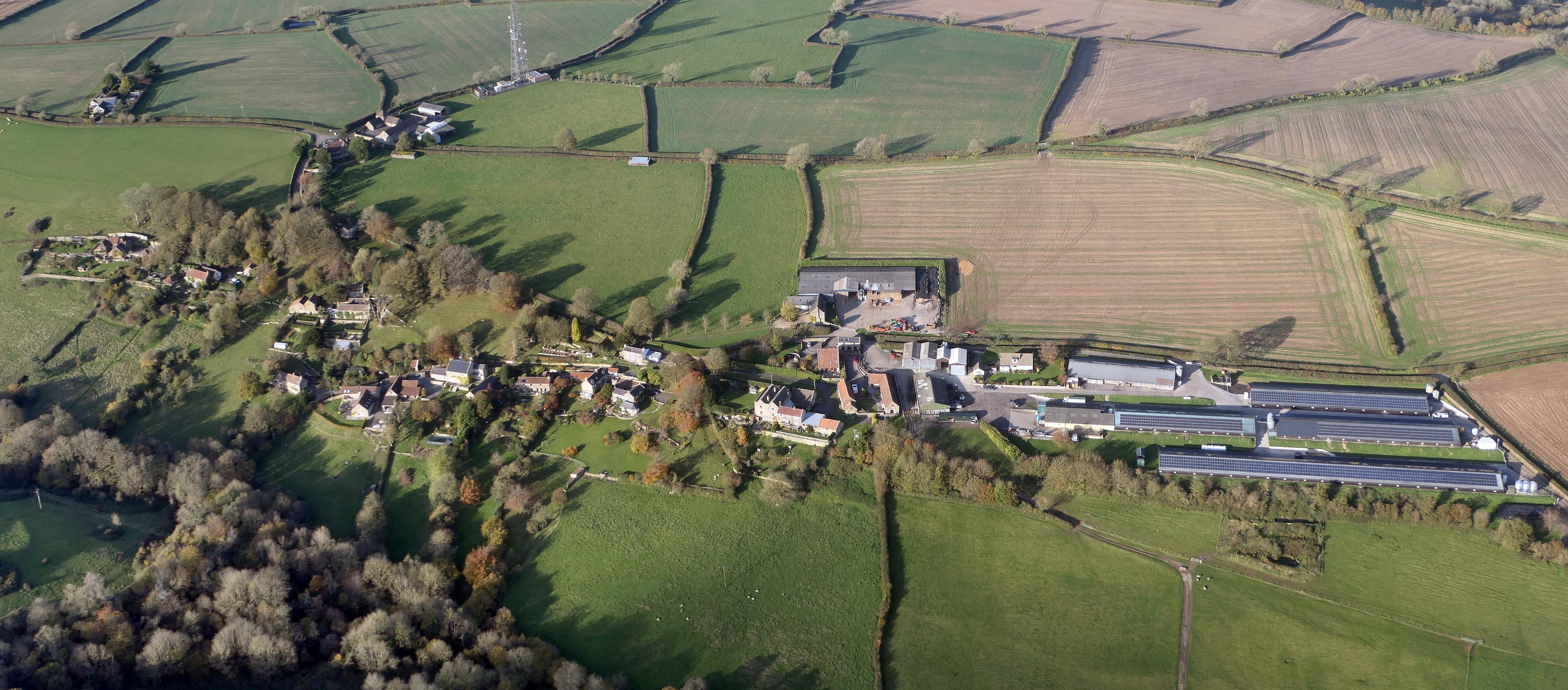 An aerial view of East Dundry, just south of Bristol in the UK.